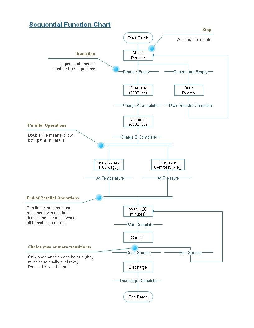 This is an example of a sequential function chart, with all of the key components of an SFC labelled